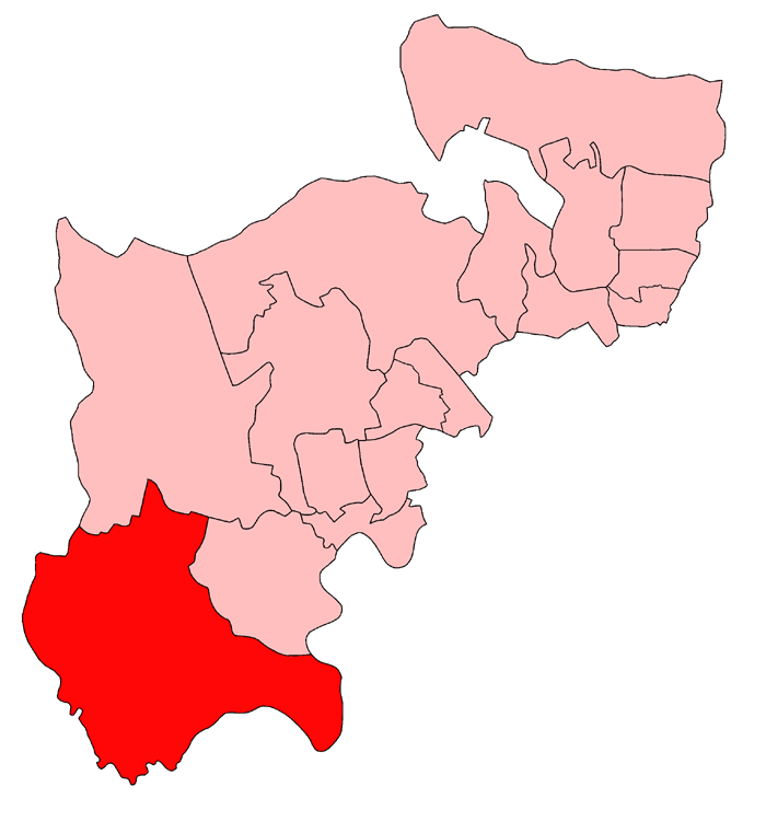 A map of Spelthorne constituency within Middlesex, as it existed from 1918 to 1945.